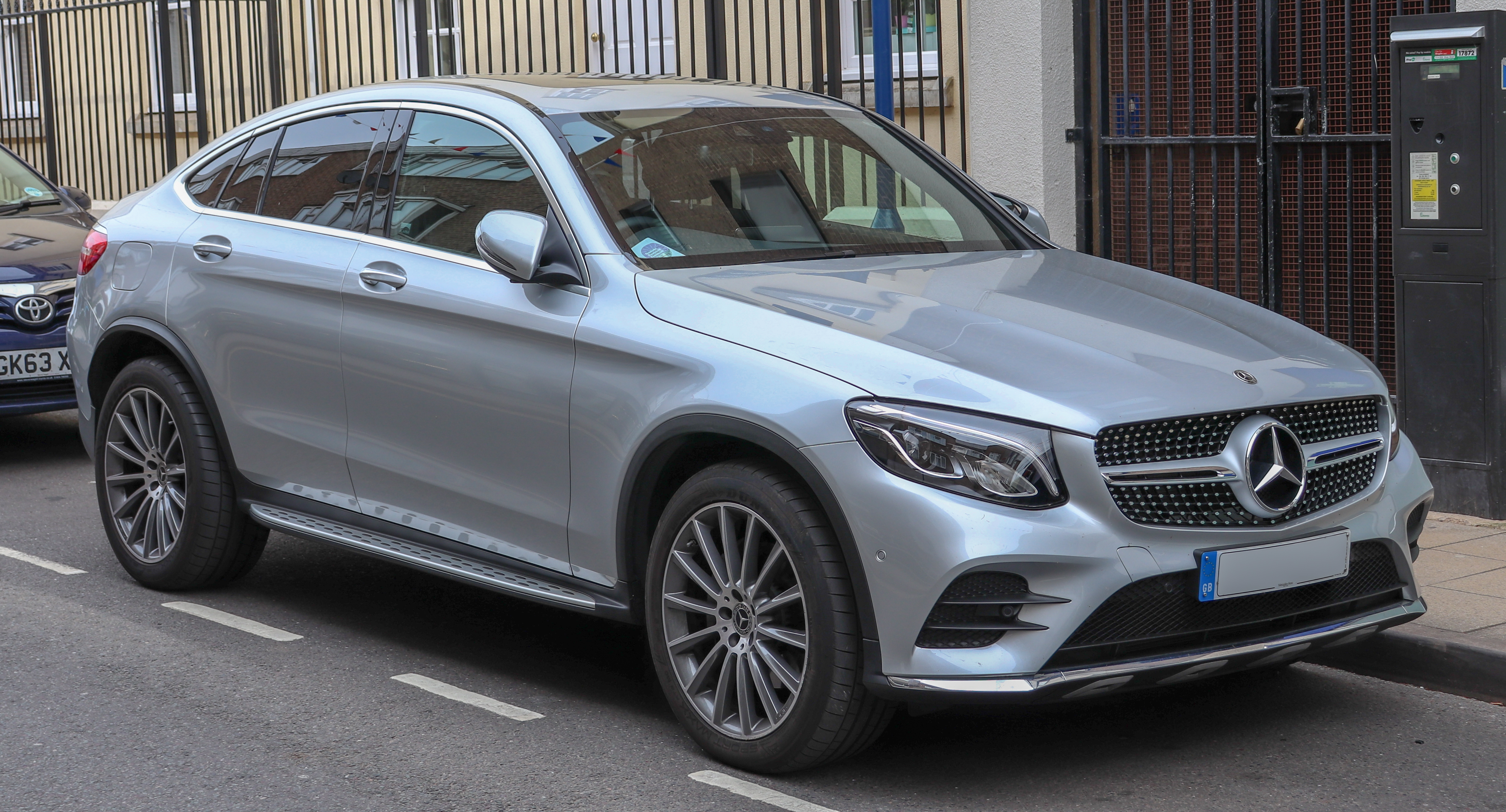 2018 Mercedes-Benz GLC 250d 4MATIC AMG Line Pre Plus 2.1 Front Taken in Warwick